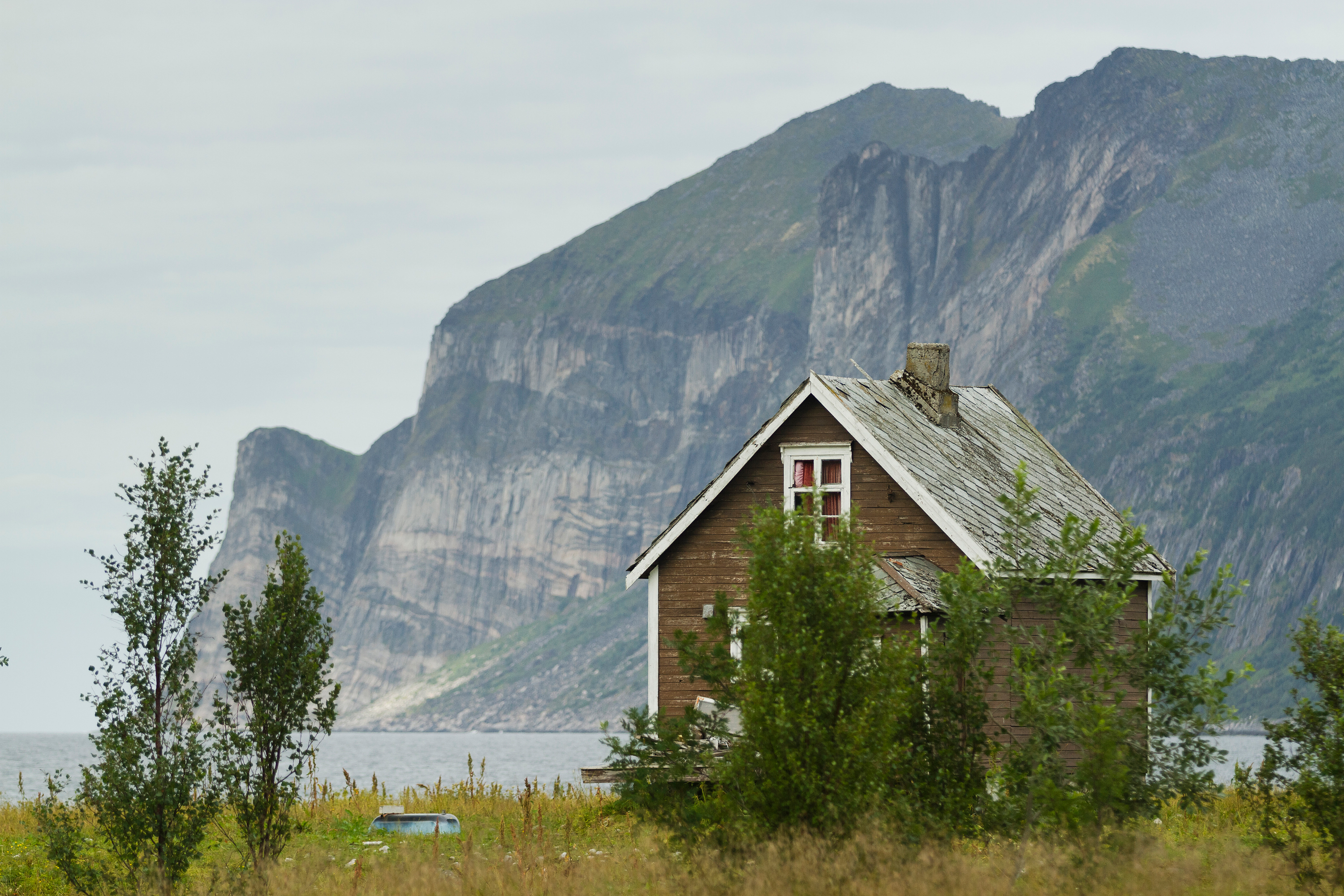 House by Mefjorden at Senjahopen in Senja, Troms, Norway in 2014 August. Gilberget (662 m) in the background.